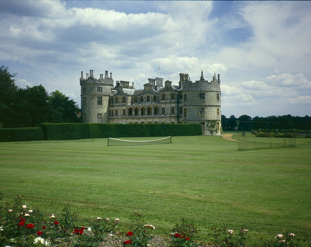 View of Longford Castle south of Salisbury. Built by Sir Thomas Gorges